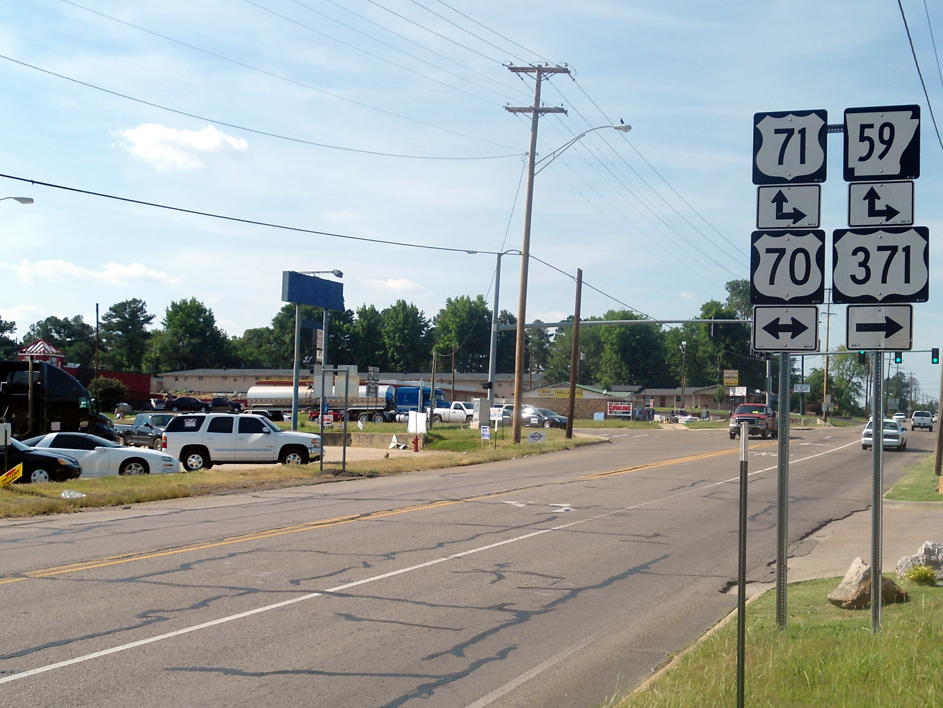 This junction marks the northern terminus of US 70B, Highway 41, and US 371 at US 59/US 70/US 71 in De Queen, Arkansas. The Arkansas state highway marker in the image should be a US 59 shield.